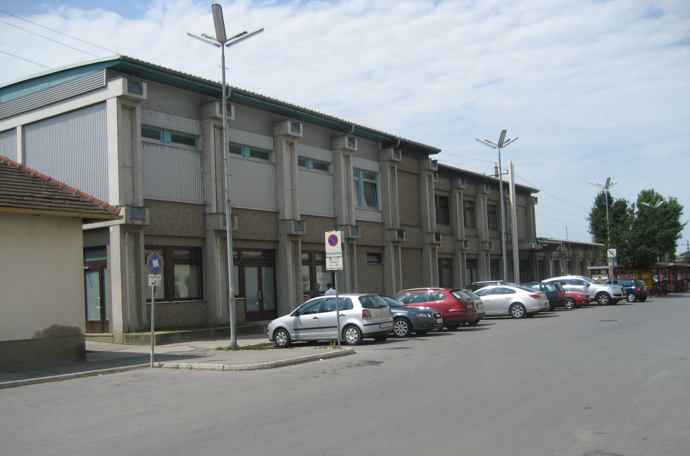 train station Bruck an der Leitha in Burgenland